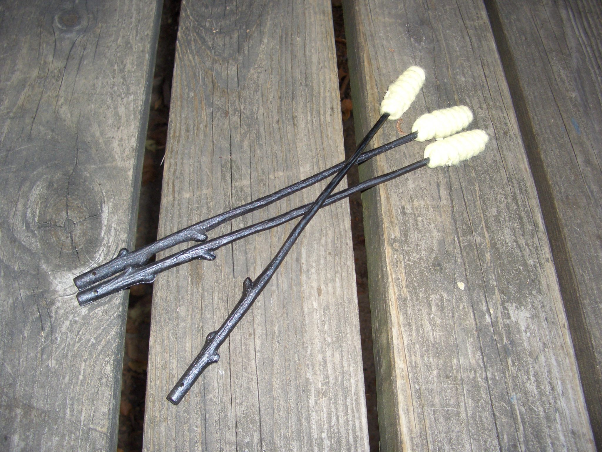 A simple set of fire eating torches made from rods cast in the shape of twigs, and wrapped with one foot each of 3/8" Kevlar-blend rope wicking.